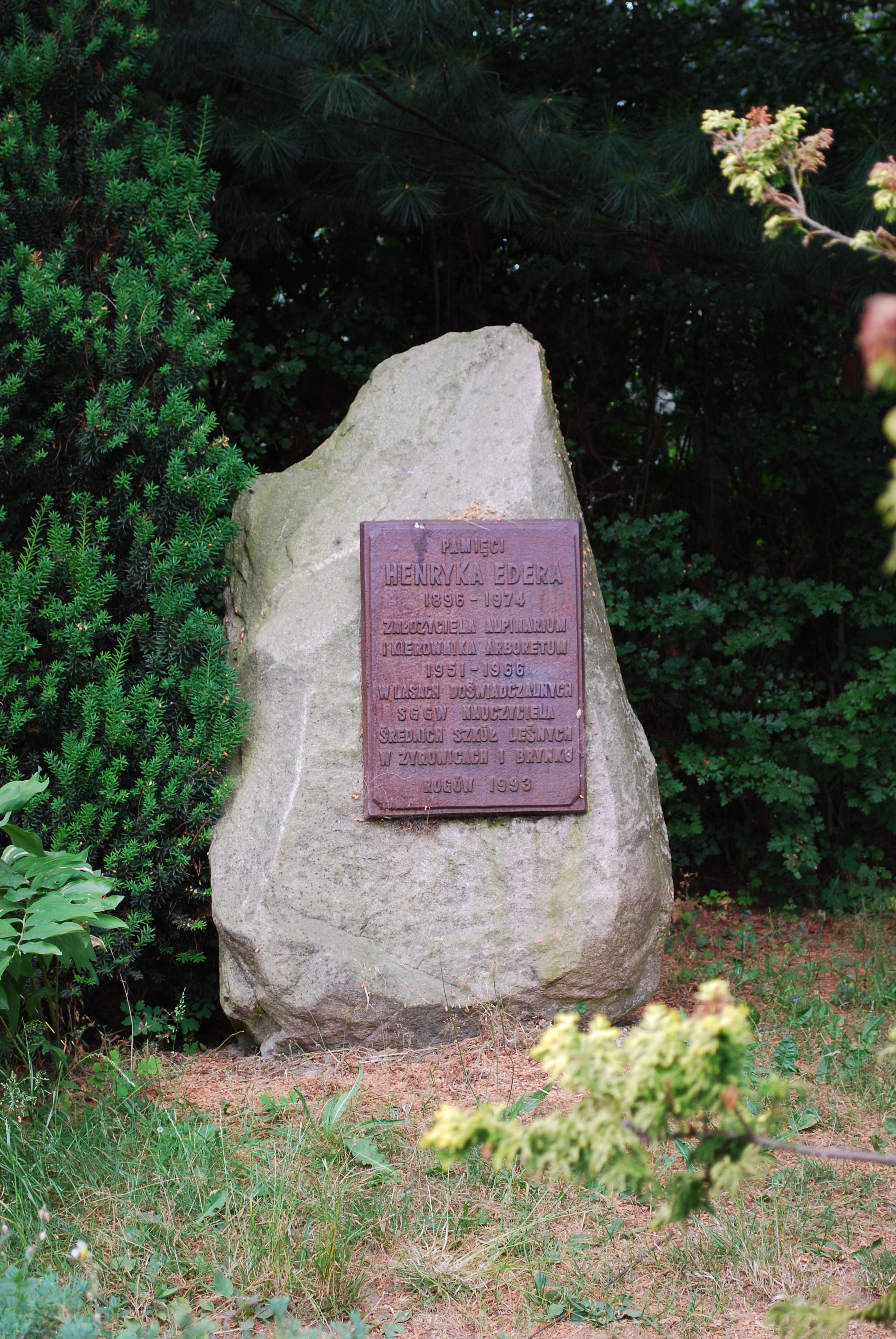 Memorial of Henryk Eder in Alpinarium in Arboretum in Rogow